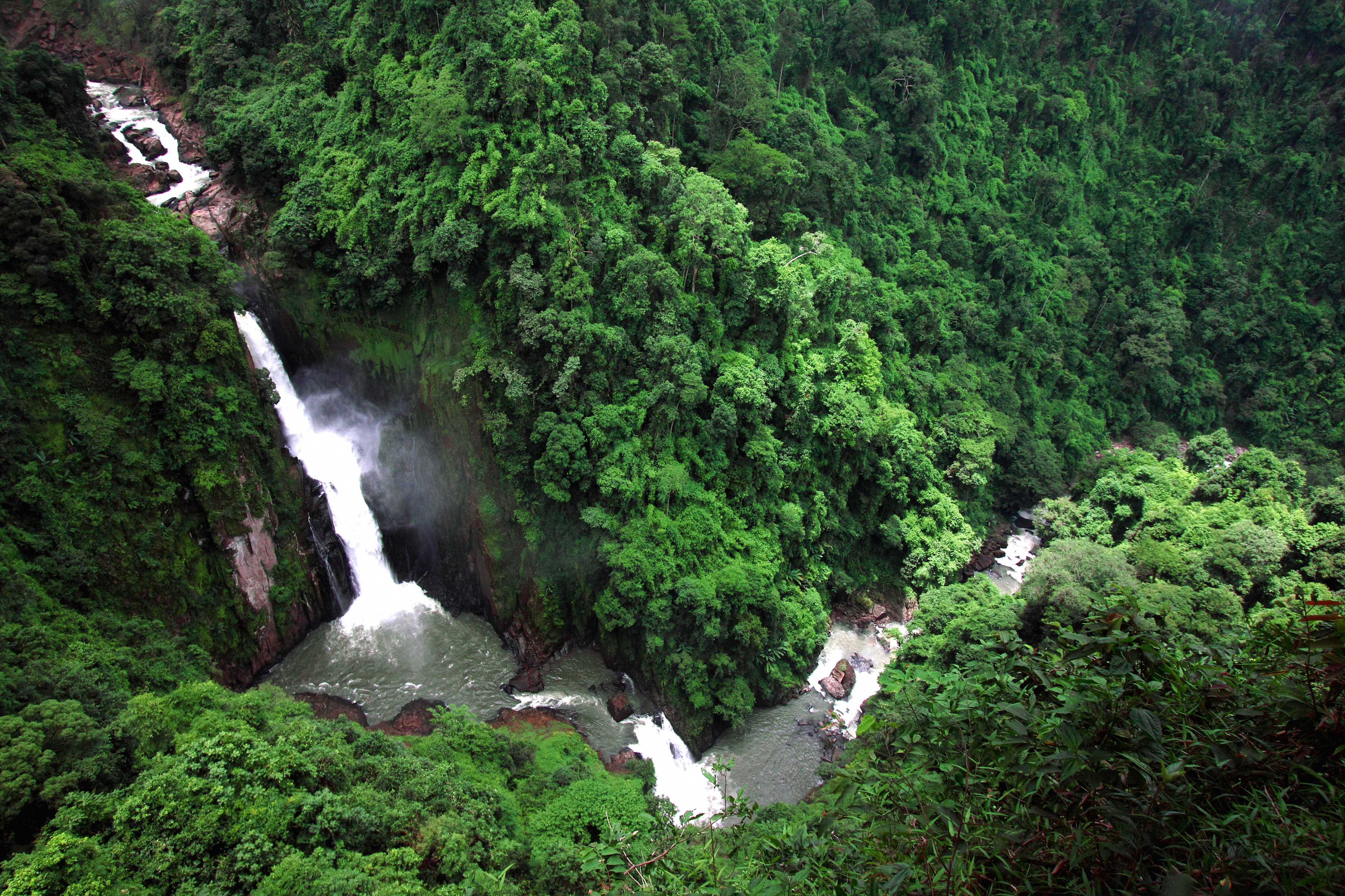 Heo Narok Fall, Khao Yai National Park, Nakhon Nayok Province